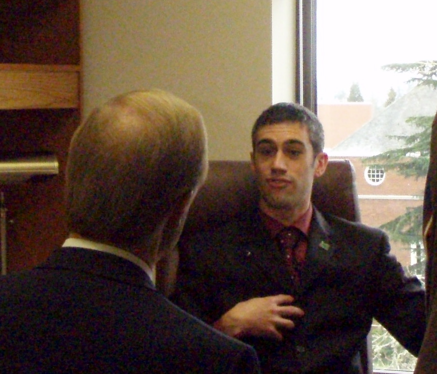 Oregon legislator Ben Cannon in his Salem office, doing an interview with KOIN anchor Mike Donahue on the opening day of the 2009 legislative session.